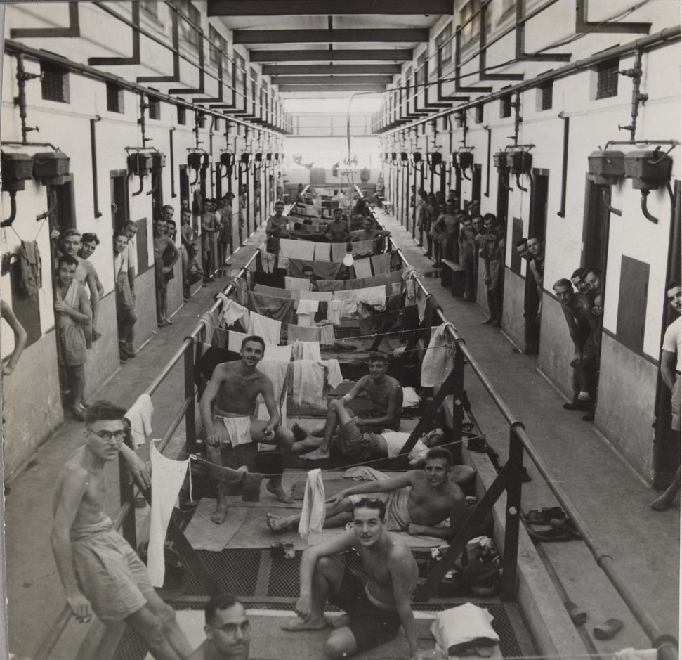 Liberated Allied prisoners lying in a corridor and looking out of cell doorways in Changi Prison, Singapore.